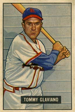 Major League Baseball player Tommy Glaviano in 1951.